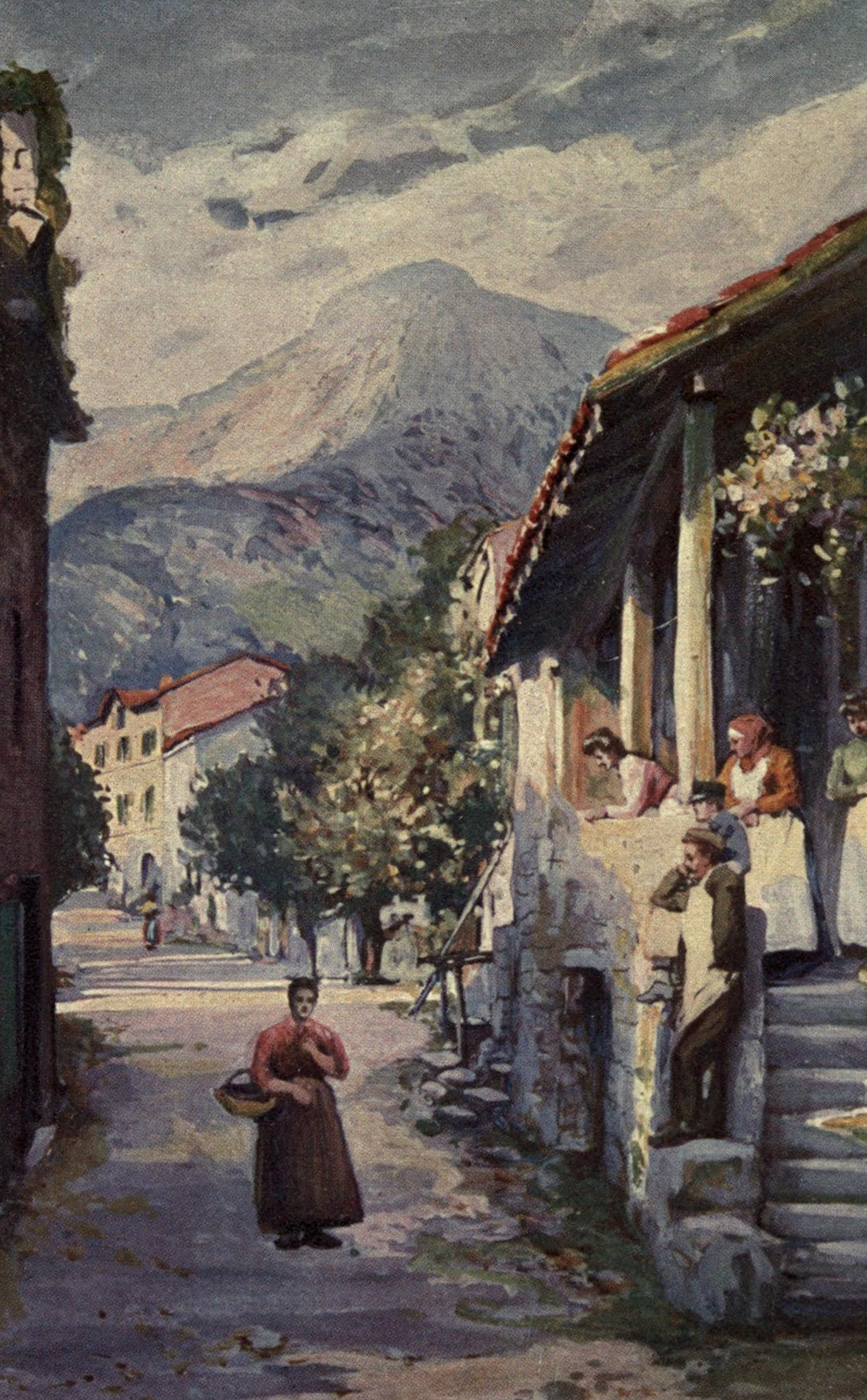 frontpiece of scanned copy of book Book of Cevennes by Sabine Baring-Gould and published in 1908